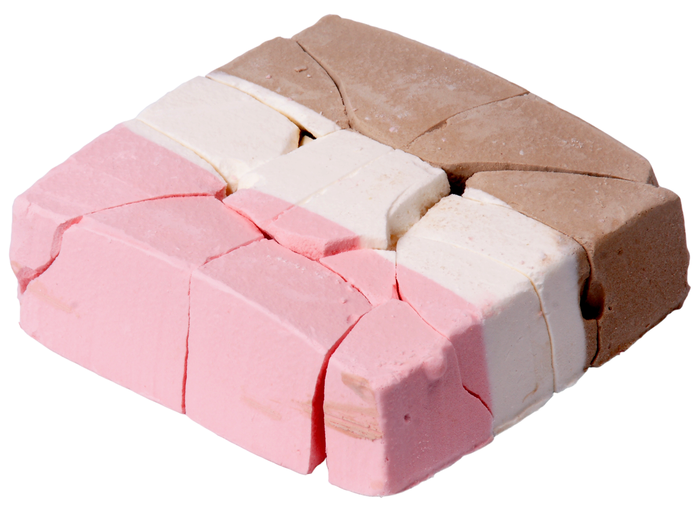 Freeze-dried neapolitan ice cream bought from a museum. Hopelessly broken and cracked when opened. Tasted weird.